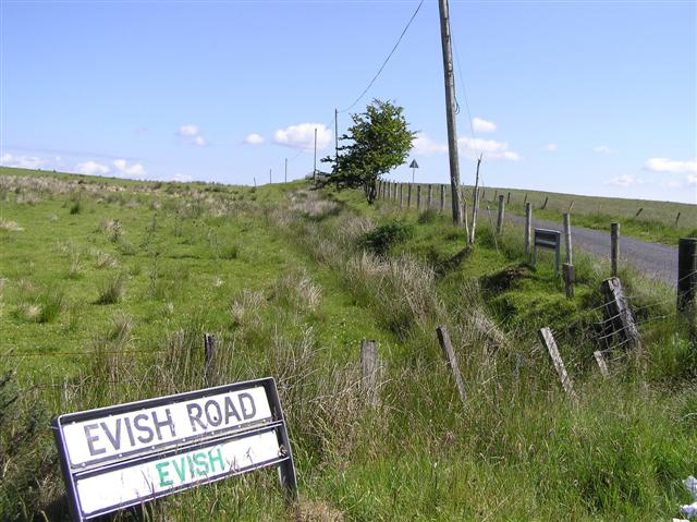 Evish Road. It is in the townland of Evish